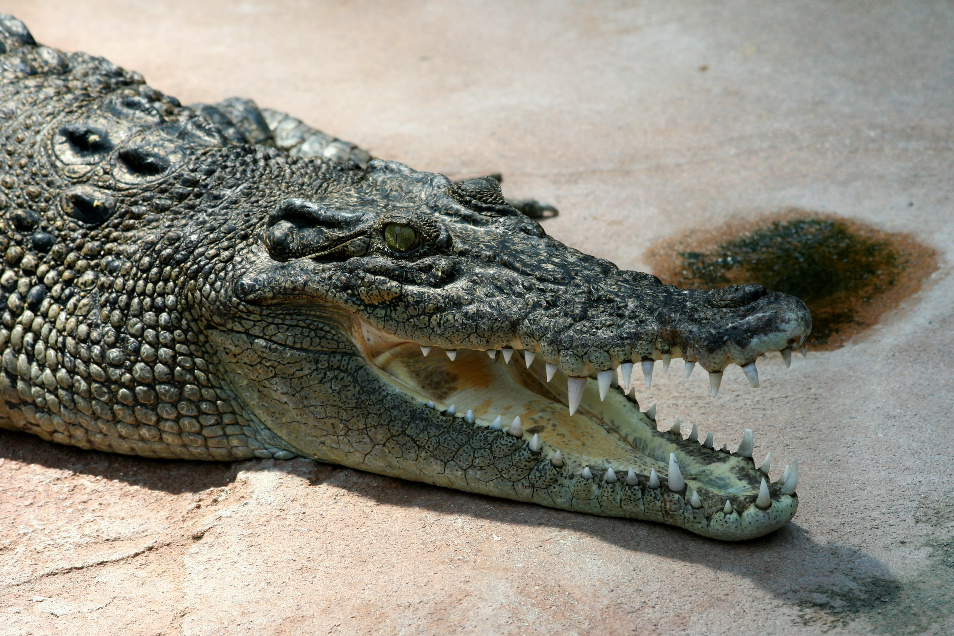 Estuarine Crocodile (Crocodylus porosus)